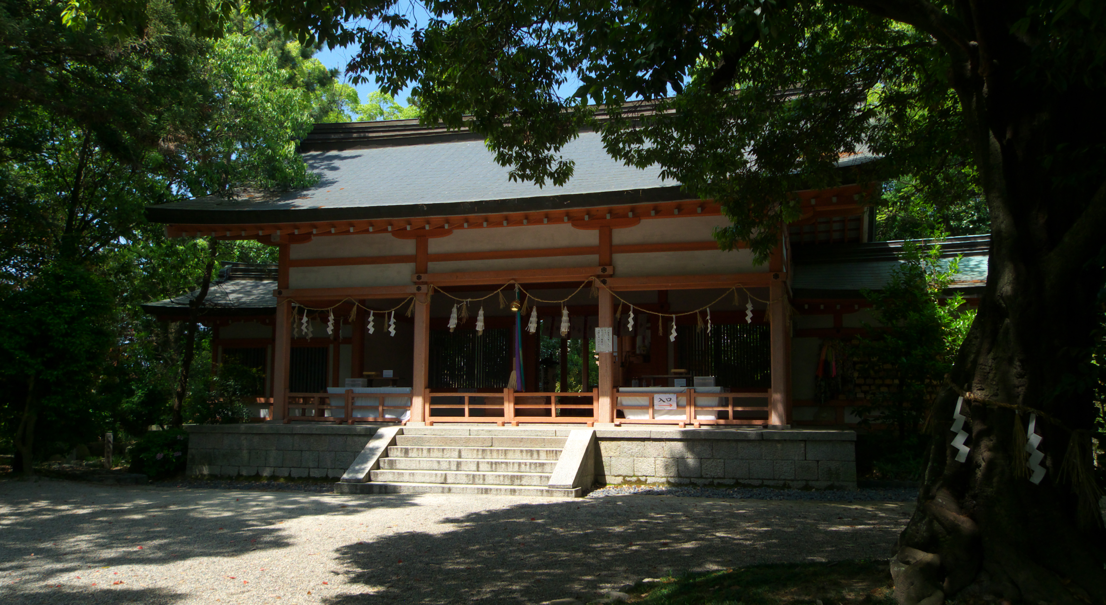 The Haiden of Meta Jinja in Yamatokoriyama, Nara, Japan.